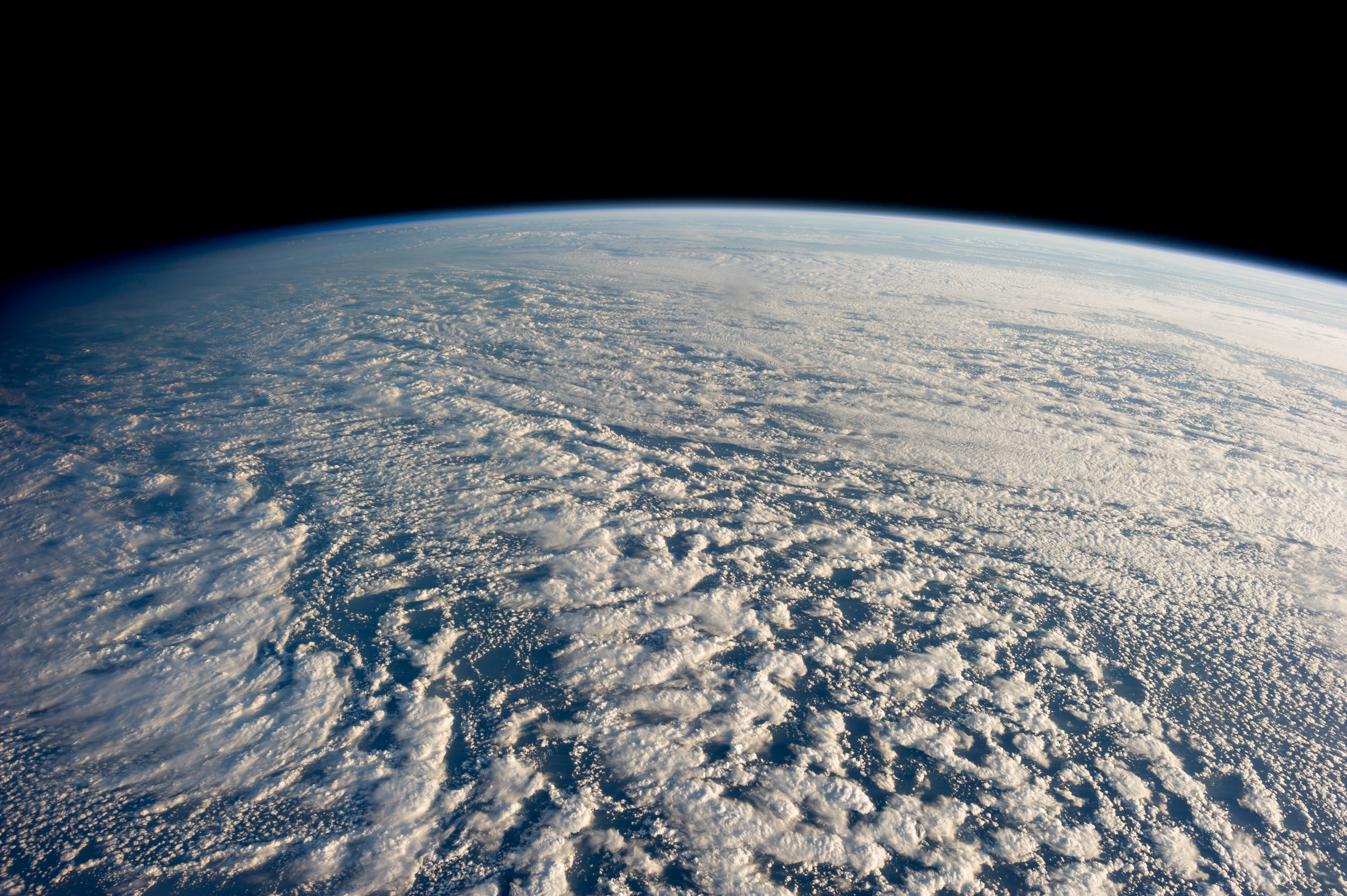 Stratocumulus clouds above the northwestern Pacific Ocean, about 460 miles east of northern Honshu, Japan. This is a descending pass with a panoramic view looking southeast in late afternoon light with the terminator (upper left). The cloud pattern is typical for this part of the world. The low clouds carry cold air over a warmer sea with no discernable storm pattern. ISS Crew Earth Observations: ISS034-E-016601 Identification Mission ISS034 (Expedition 34) Roll E Frame 016601 Camera Camera Focal Length 24 mm Camera Nikon D3S Quality Percentage of Cloud Cover 76-100% Nadir What is Nadir? Date 2013-01-04 Time 05:56:04 Original image caption On Jan. 4 a large presence of stratocumulus clouds was the central focus of camera lenses which remained aimed at the clouds as the Expedition 34 crew members aboard the International Space Station flew above the northwestern Pacific Ocean about 460 miles east of northern Honshu, Japan. This is a descending pass with a panoramic view looking southeast in late afternoon light with the terminator (upper left). The cloud pattern is typical for this part of the world. The low clouds carry cold air over a warmer sea with no discernable storm pattern.